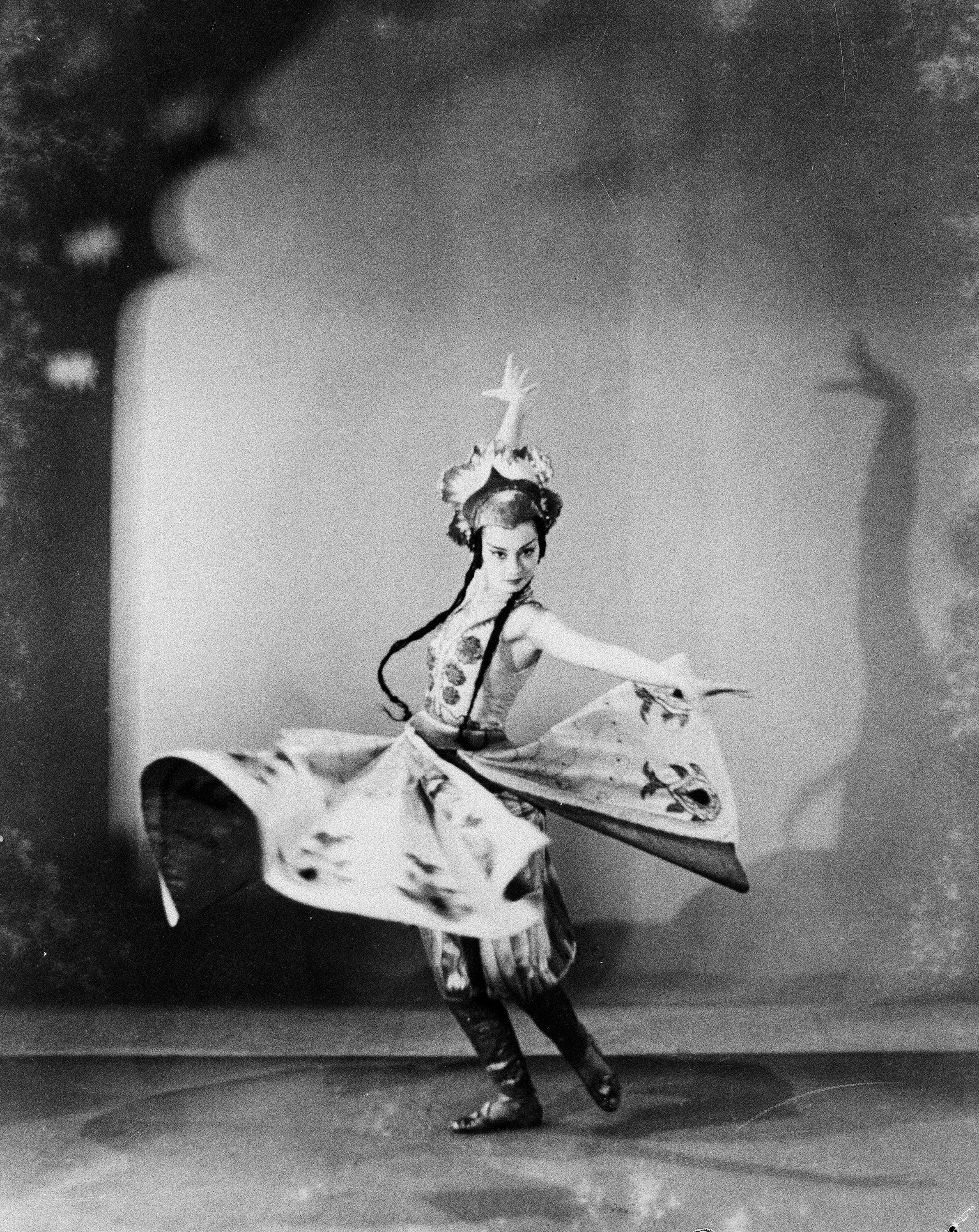 Find more detailed information about this photographic collection: .au/item/itemDetailPaged.aspx?itemID=395095 Search for more great images in the State Library's collections: .au/search/SimpleSearch.aspx From the collection of the State Library of New South Wales